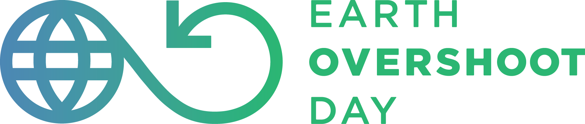 Earth Overshoot Day is an initiative of Global Footprint Network, an international research organization that is changing the way the world measures and manages its natural resources. The date of Earth Overshoot Day is calculated with data from the National Footprint Accounts, available for free on .